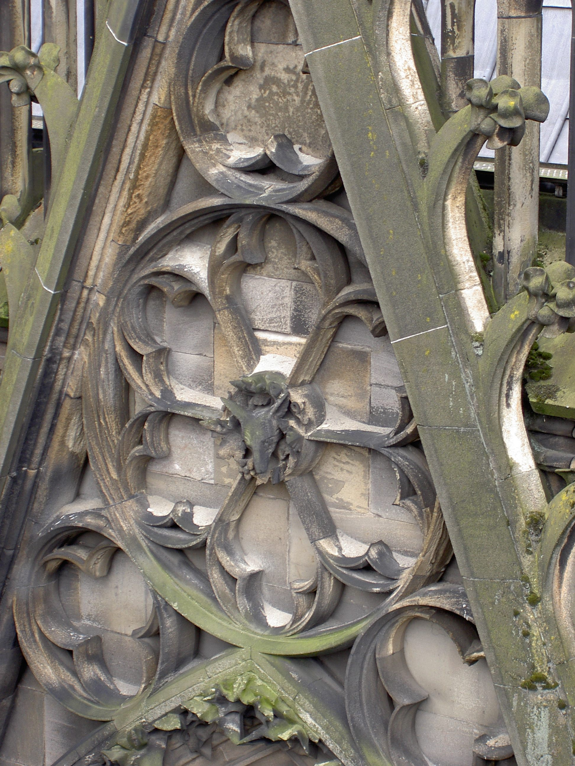 Lamb's head: Kölner Dom (Cologne Cathedral) south wall detail